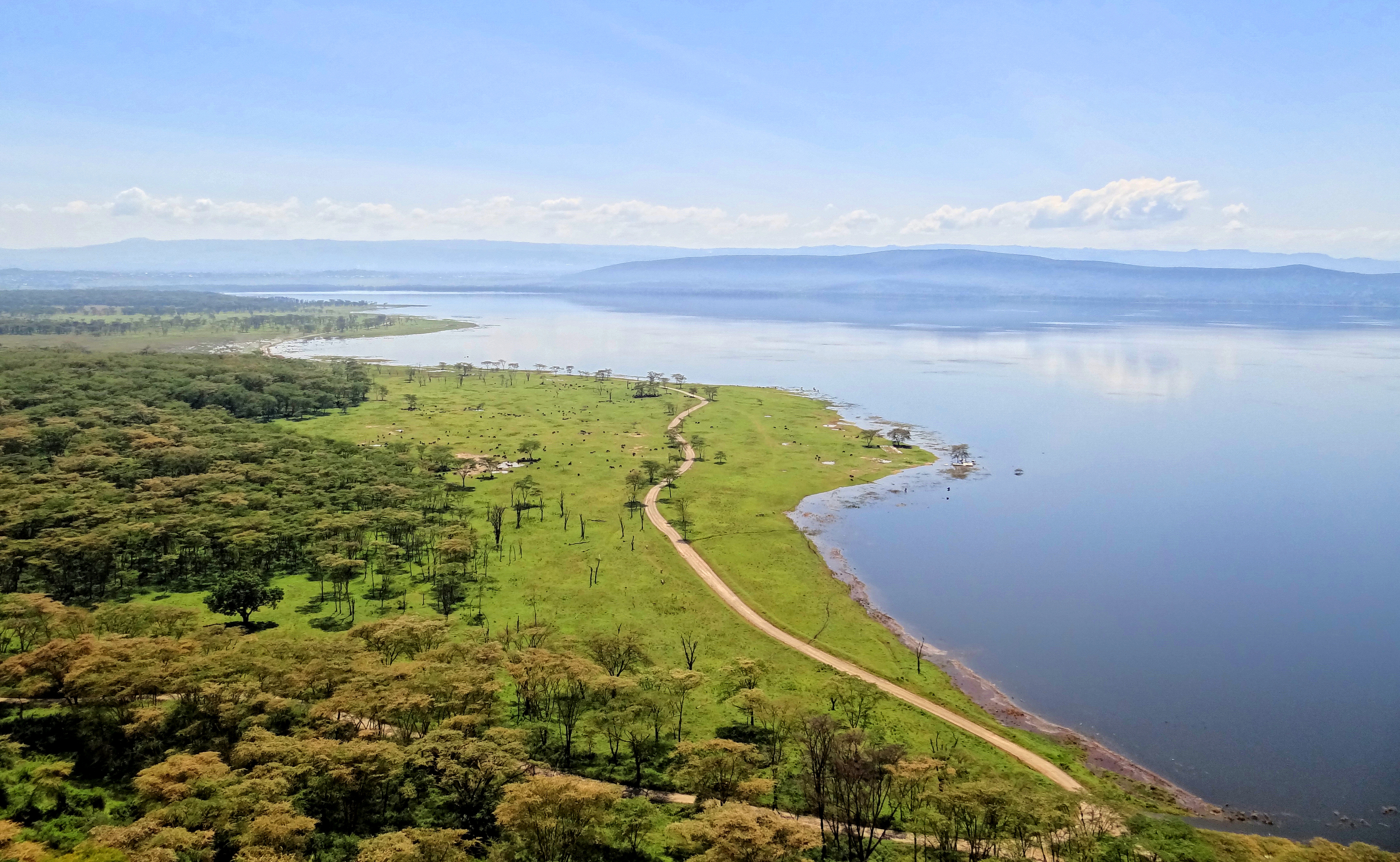 The view from Baboon Cliff, a lookout point overseeing much of Lake Nakuru National Park.